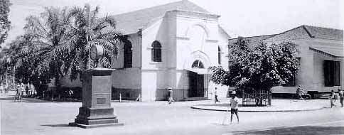 The Protestant Church in Western Part of Indonesia - Jemaat Marga Mulya Yogyakarta on 1857